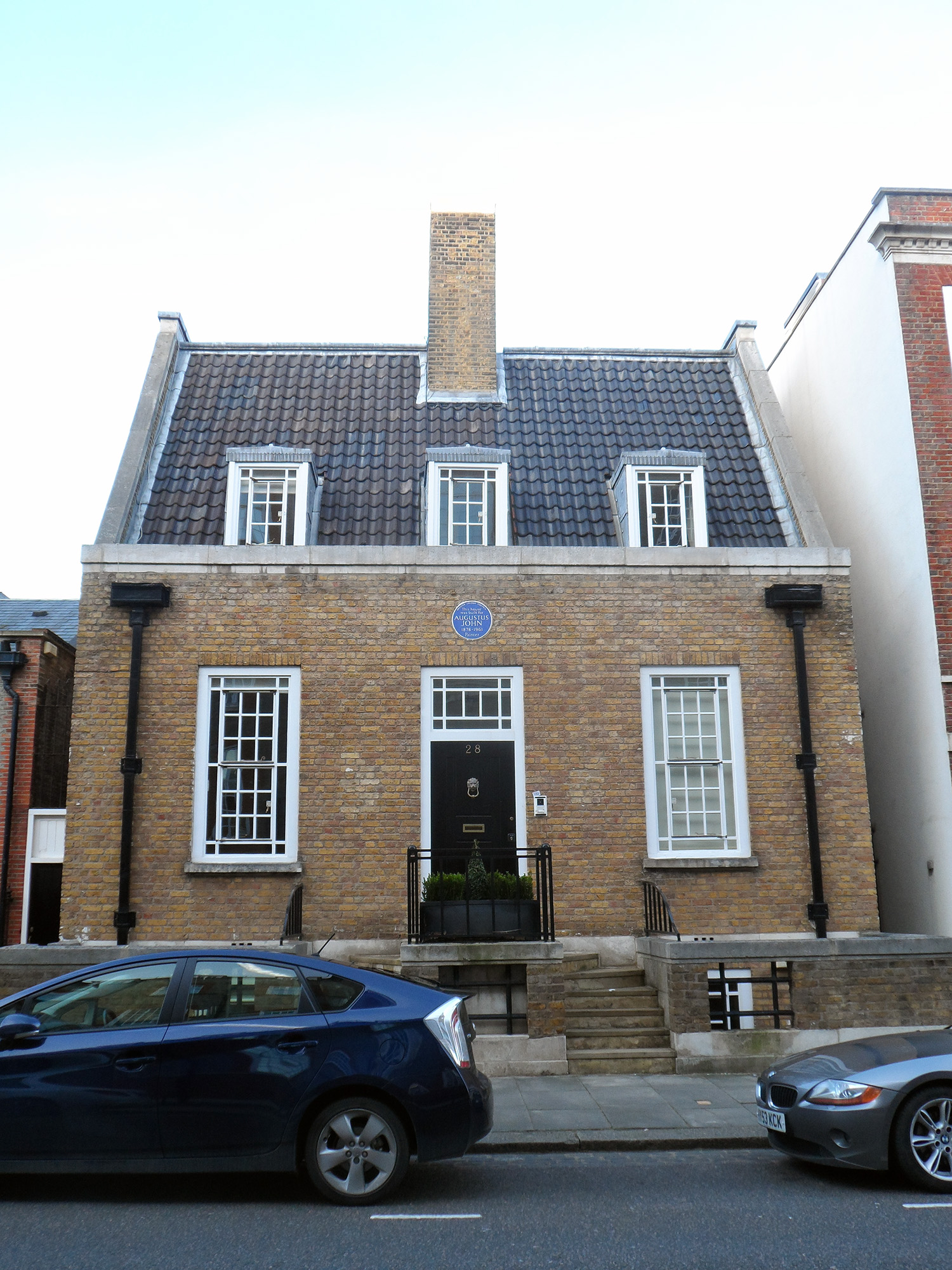 This house was built for Augustus John 1878–1961 Painter